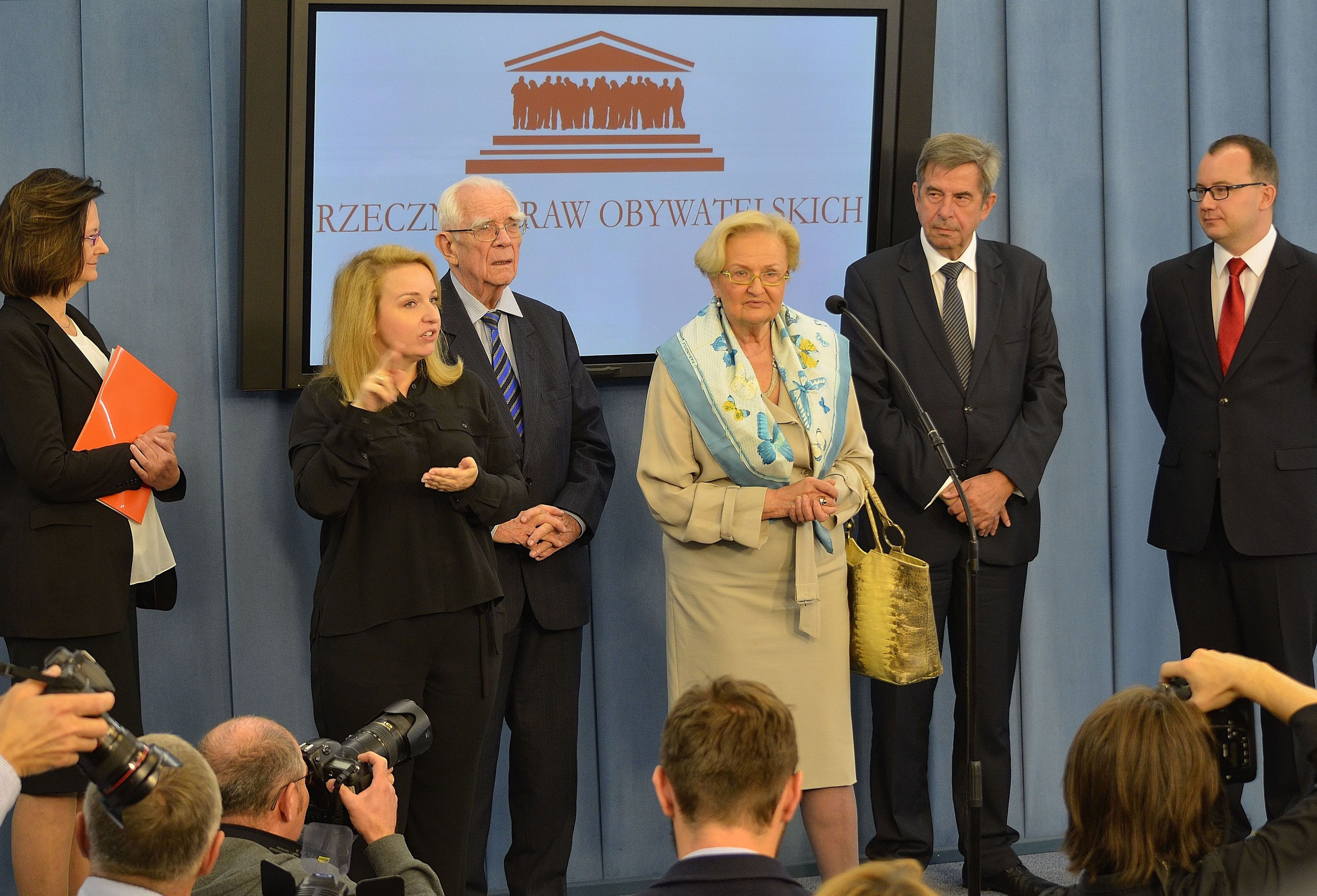 Irena Lipowicz, Adam Zieliński, Ewa Łętowska, Andrzej Zoll and Adam Bodnar in the Sejm